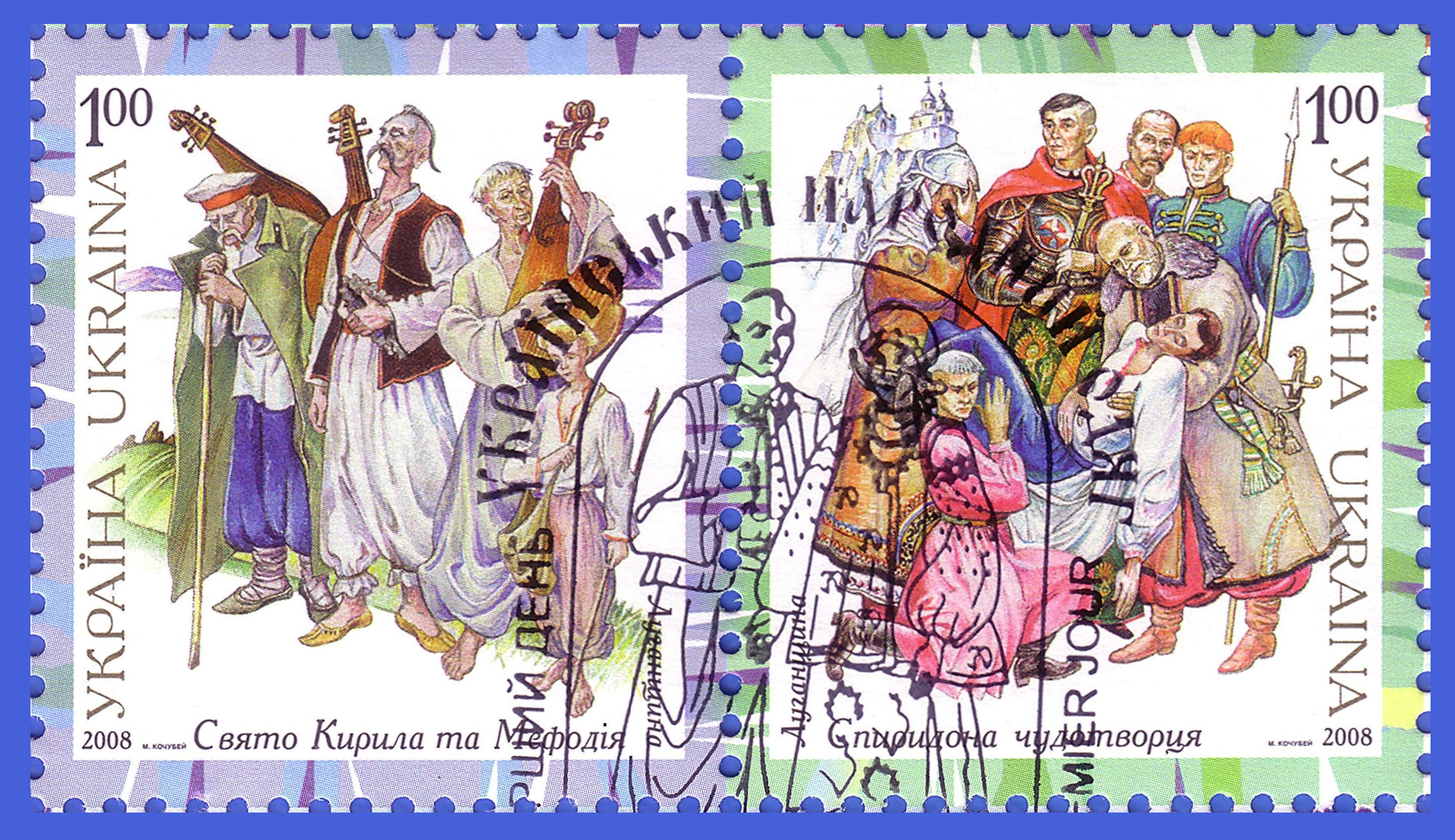 Stamps with Ukrainian traditional clothing - Lugansk. 2008.